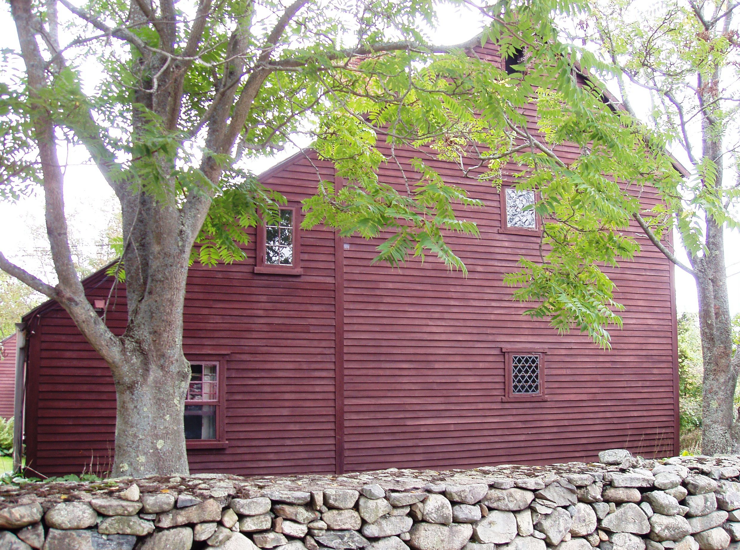 Dole-Little House - Newbury, Massachusetts. Side view from the street. Photograph taken by me, September 2005.